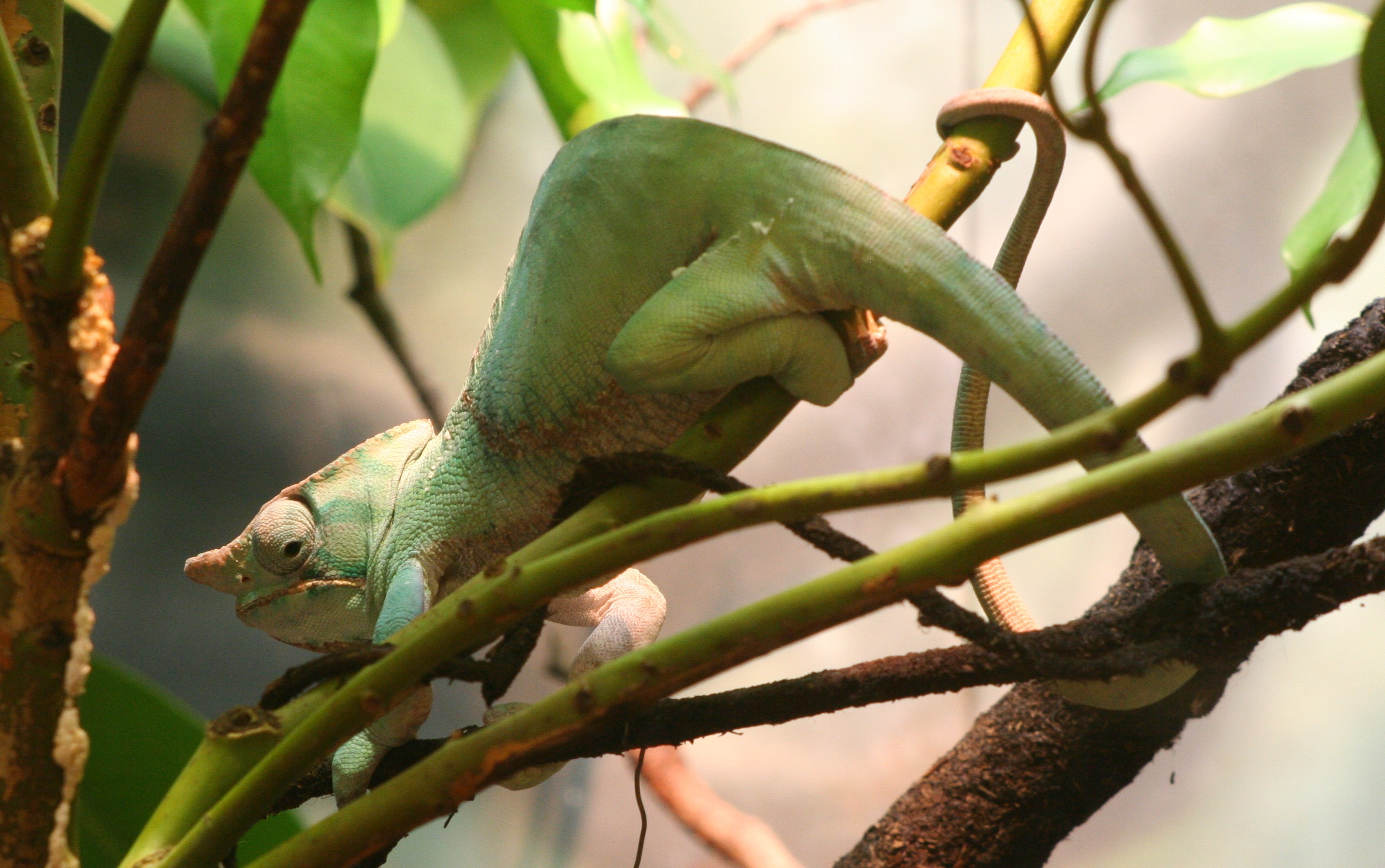 Belted chameleon (Furcifer balteatus) at the Buffalo Zoo